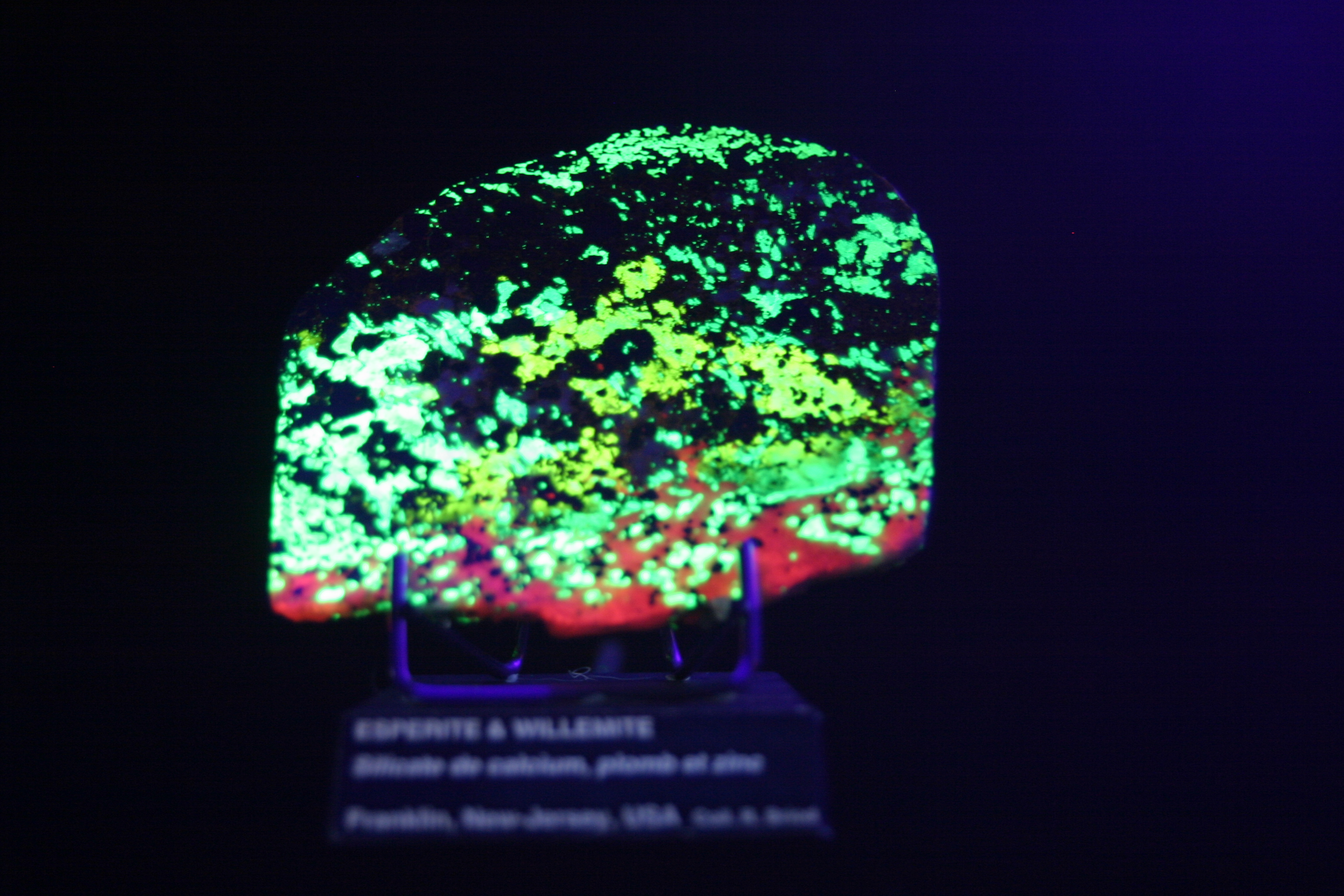 Willemite and Esperite. Museum of Lausanne